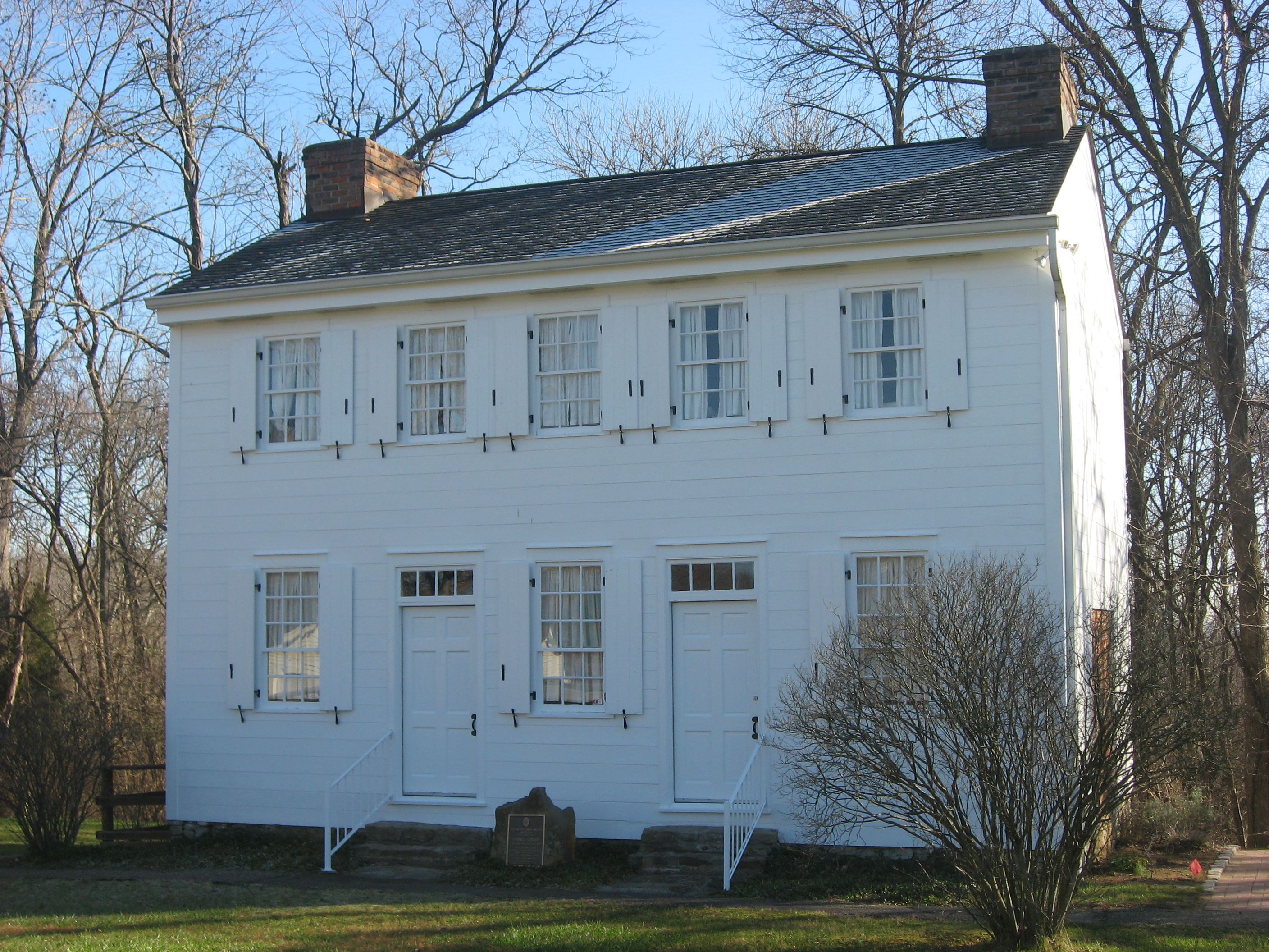 Front and southern side of the Othniel Looker House, located at 10580 Marvin Road north of Harrison in Harrison Township, Hamilton County, Ohio, United States. Built in 1805 and the home of Ohio governor Othniel Looker, it is listed on the National Register of Historic Places. Note the snow on the roof — light snow had fallen overnight, and as temperatures were around freezing, sunlight melted snow but could not affect snow in the shadow of the chimney.